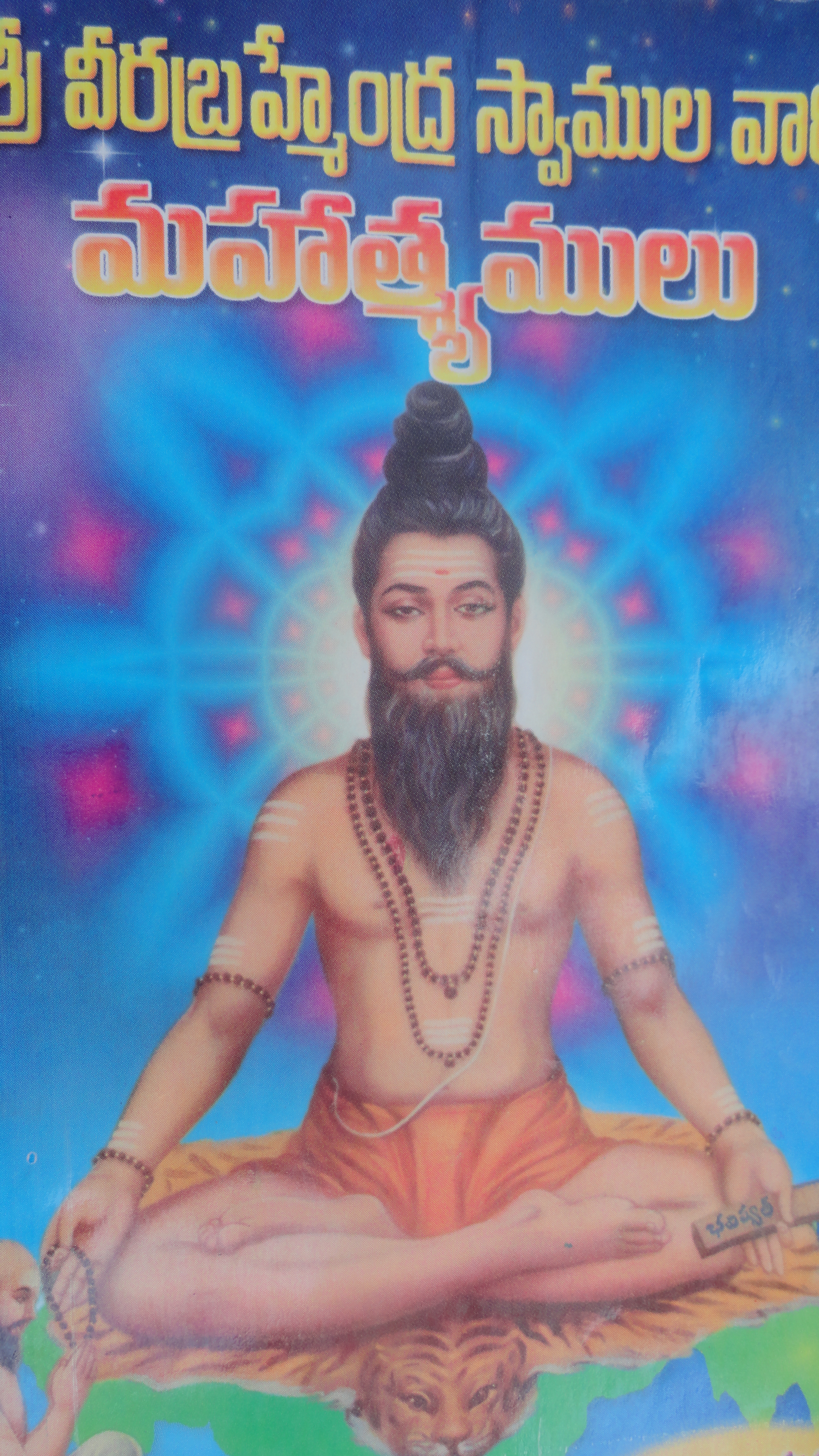 vira brahmemdra swami vari mahaatyam--book